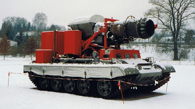 "Hurricane" firefighting vehicle, which mounts a R-13-300 jet engine from the MiG 21 on the chassis of a T-55 tank. The engine blows a mist of water over the fire, which extinguishes it from a distance. This example is in the Fulda German Firefighter's Museum ((Deutsches Feuerwehrmuseum Fulda).